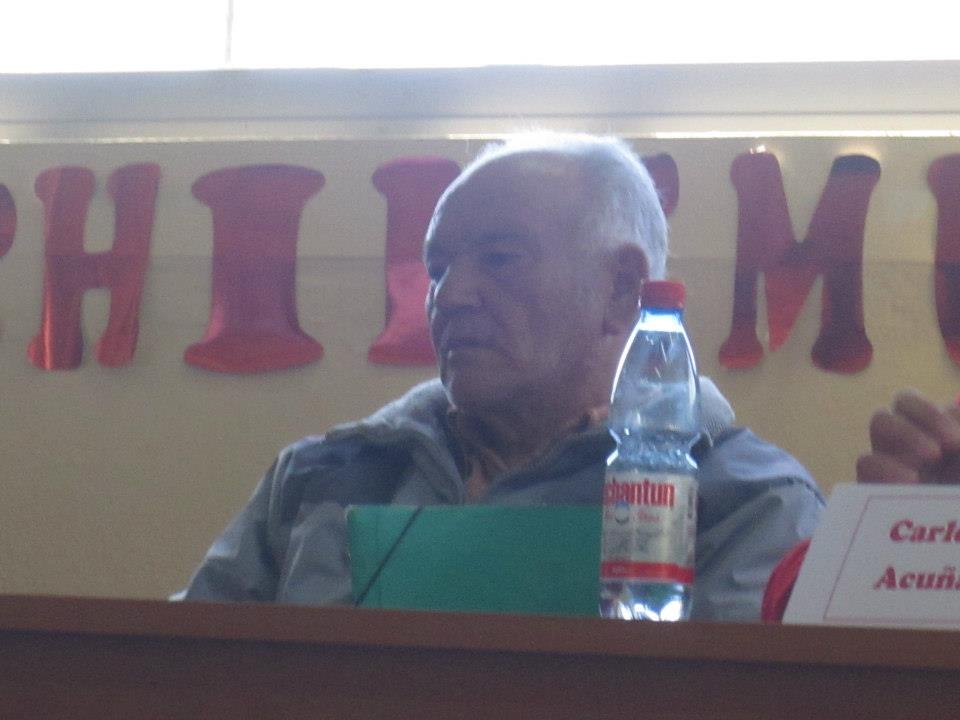 Candidate for mayor of Pichilemu in 2012